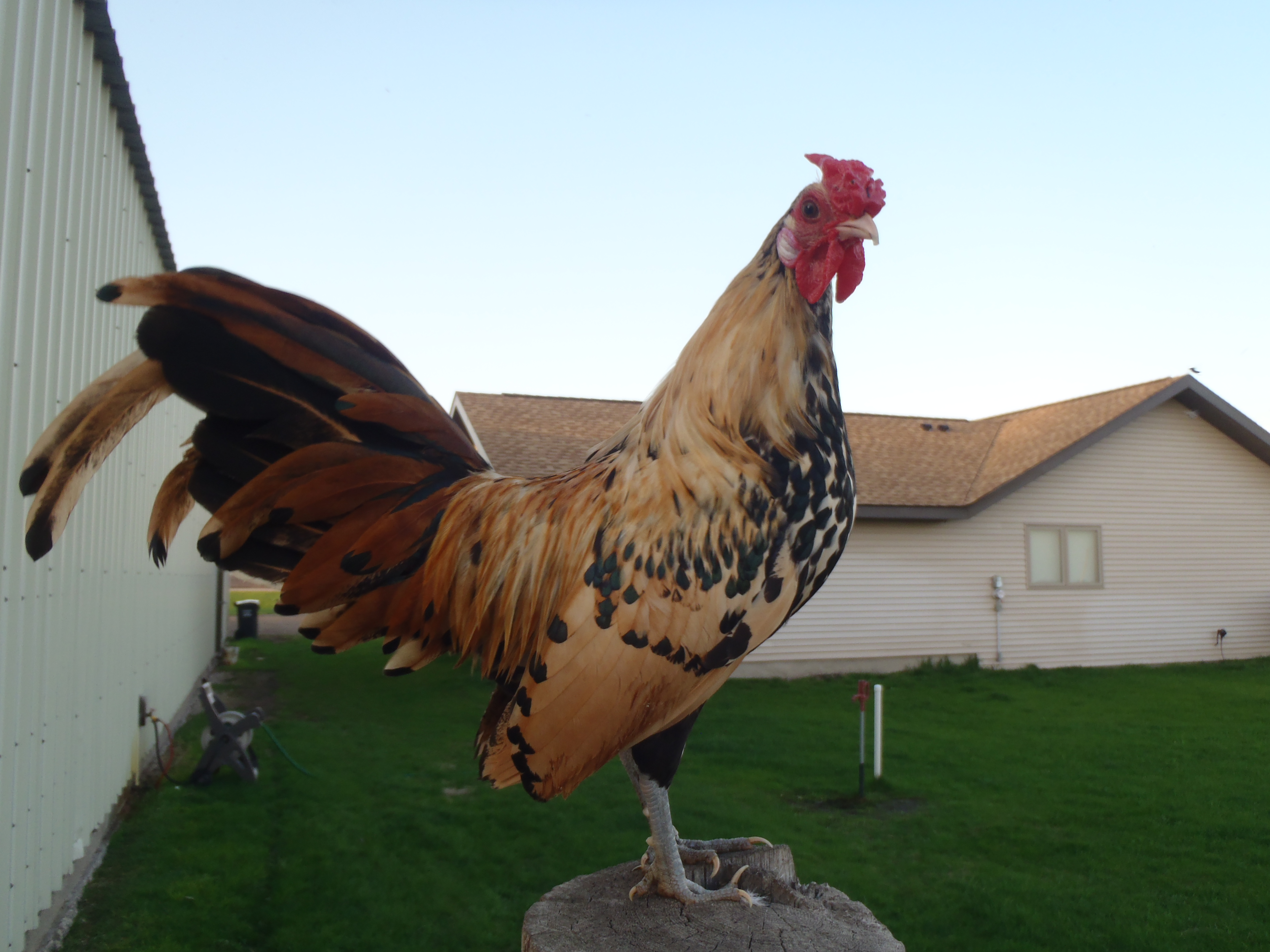 Citron Spangled Hamburg bantam rooster. Taken by Ryan Zierke